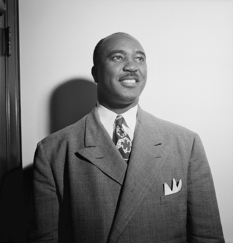 Jimmie Lunceford, ca. August 1946. Photography by William P. Gottlieb